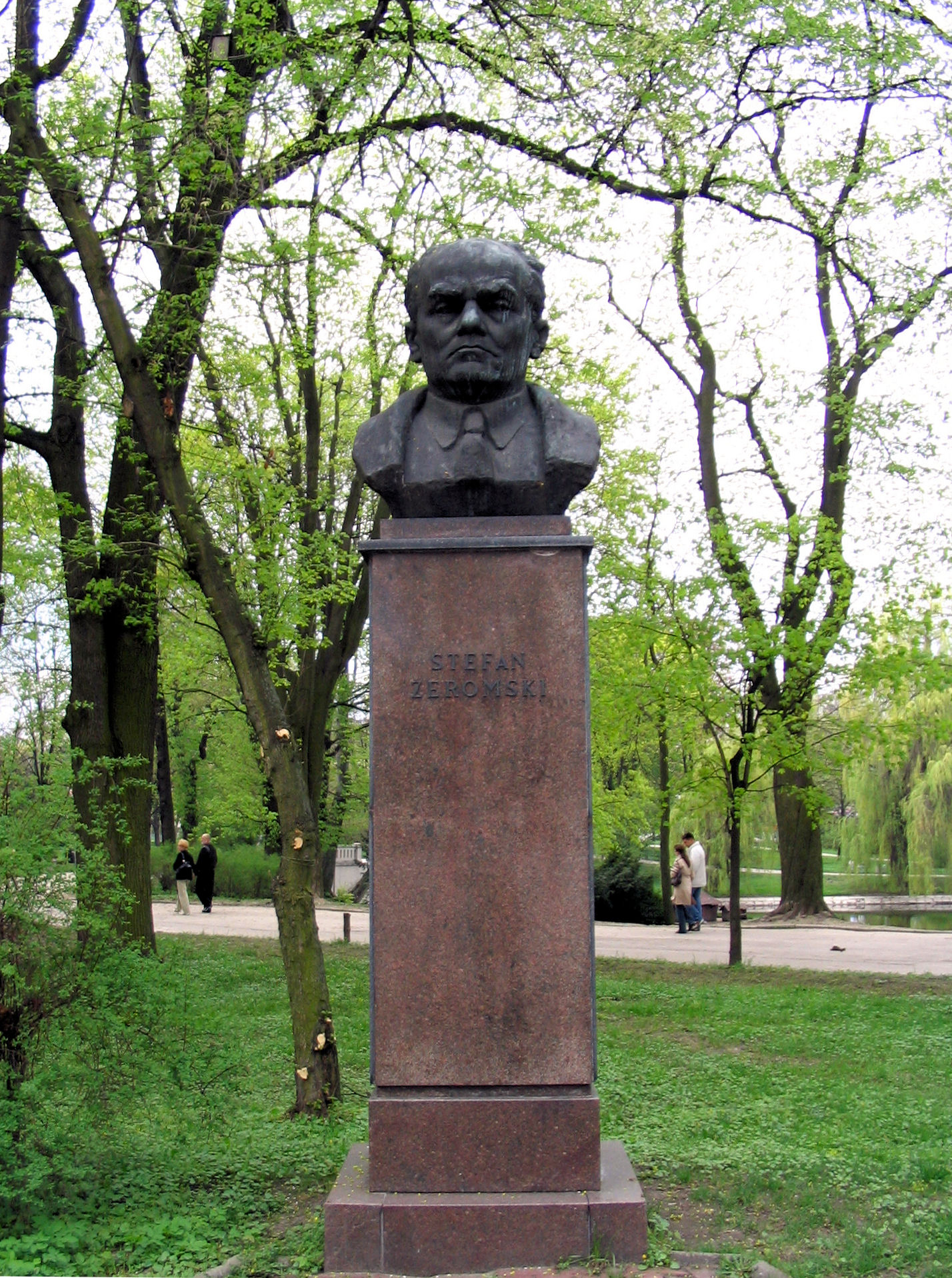 Stefan Żeromski statue in the City Park, Kielce, Poland, 2006 yr. Aparat/Camera: Canon PowerShot A75